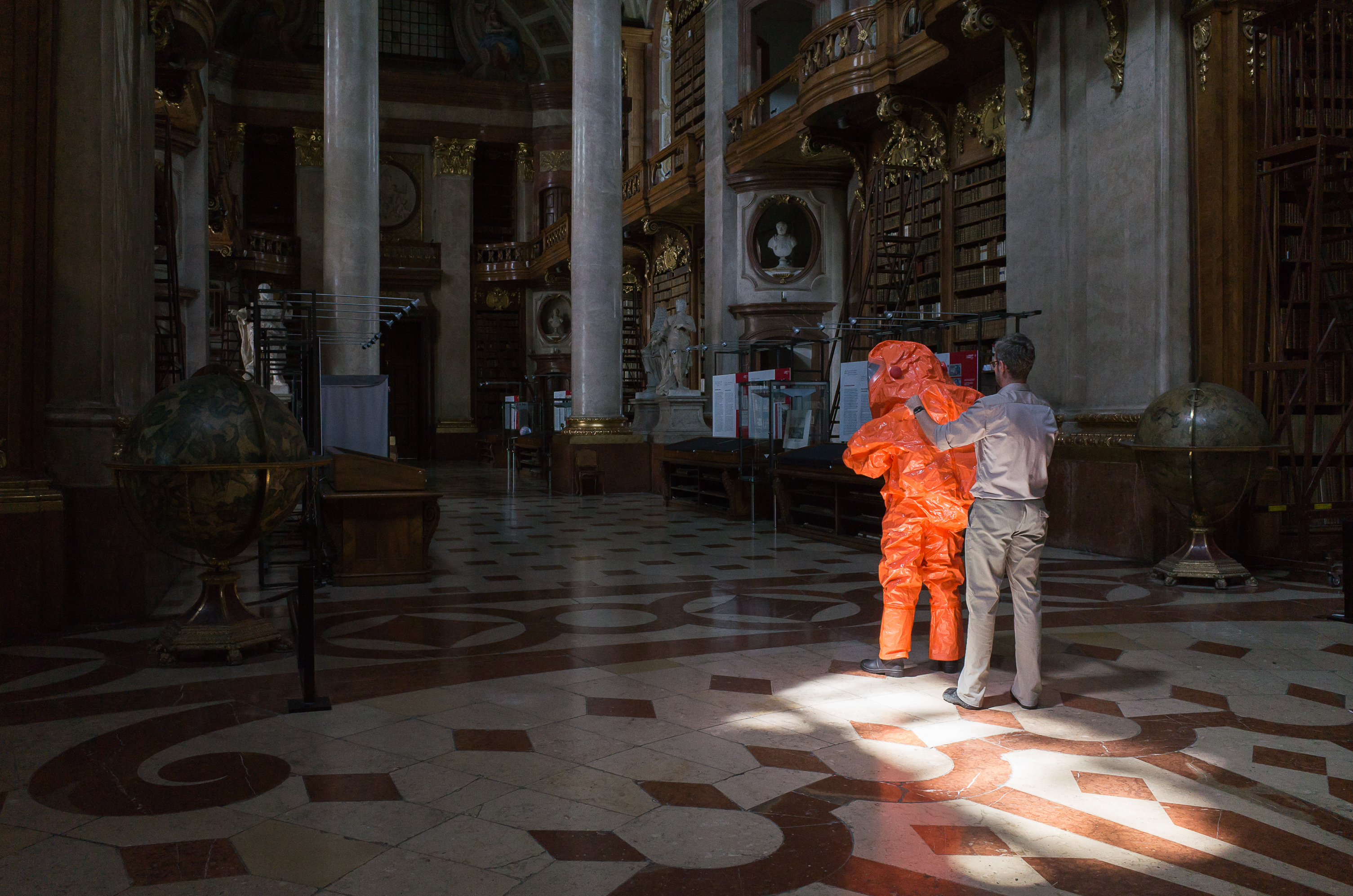 Director Michael Madsen behind the scenes at the shooting of THE VISIT